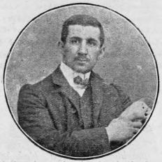 Shavarsh Krissian (July 22, 1886 – August 15, 1915) was an athlete, writer, publicist, journalist, educator, and editor of the first sports magazine of the Ottoman Empire Marmnamarz. He was also considered one of the founders of the Armenian Olympics and the Homenetmen Armenian sports organization. He was a victim of the Armenian Genocide.